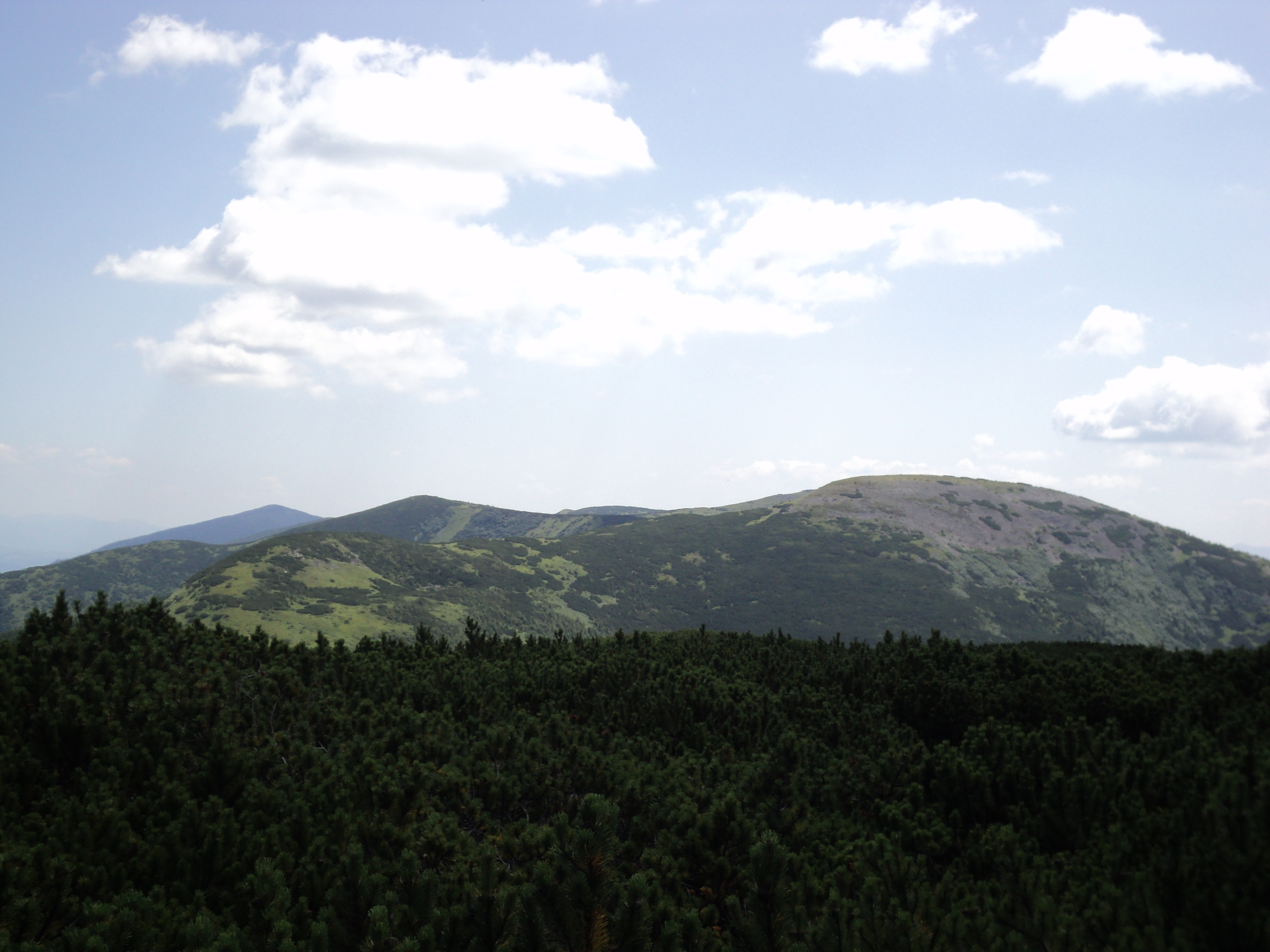 View on Gropa (far right), Bratkivska (far left) and Chorna Klyva (her) from Durnya.